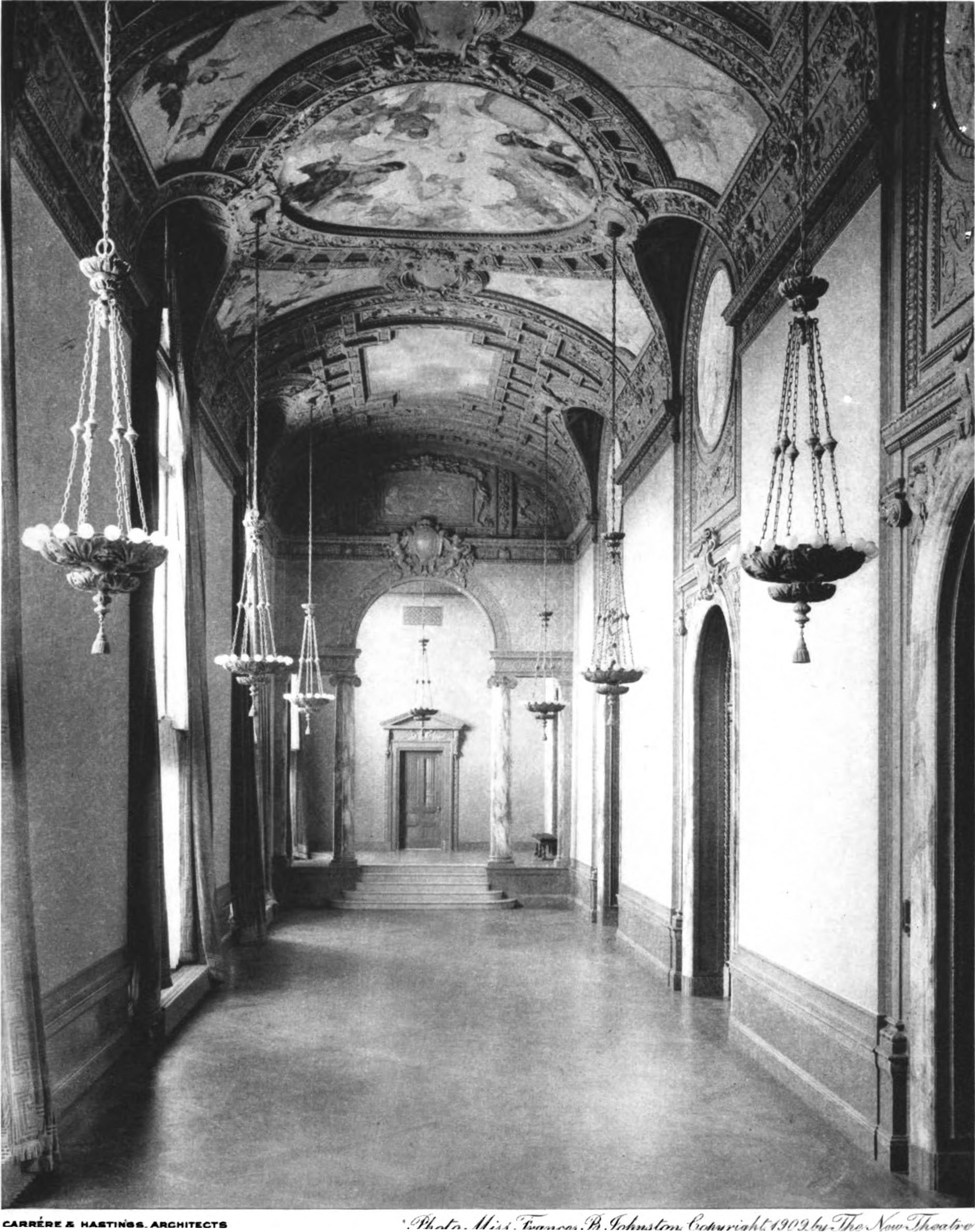 General view of the main foyer of the New Theatre on Central Park West in New York City.